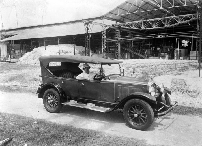 Repronegatief. Employee of a sugar factory on an inspection tour by car, Java. Car is a Willys-Knight made USA about 1929, see link below